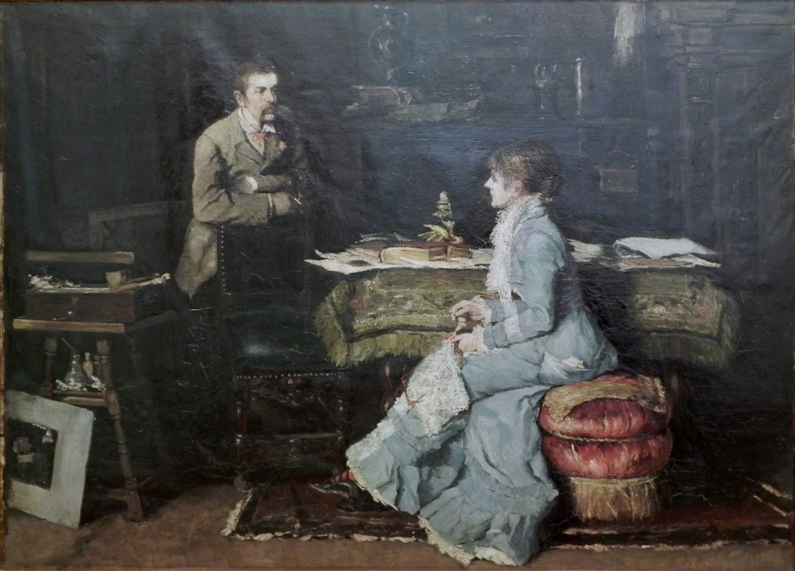 In The Studio (The Artist with his Wife)